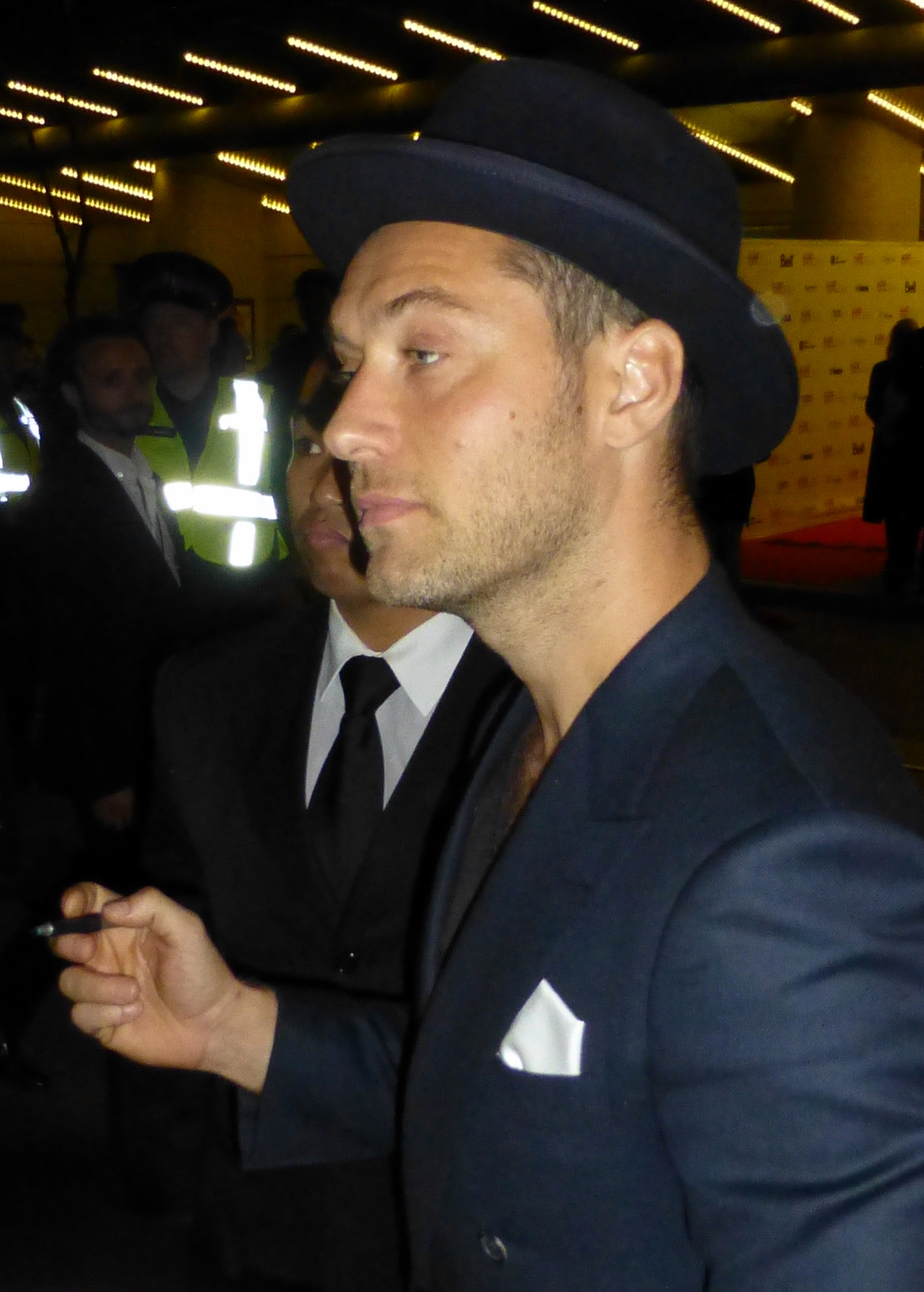 Jude Law at the premiere of Dom Hemingway, Toronto Film Festival 2013